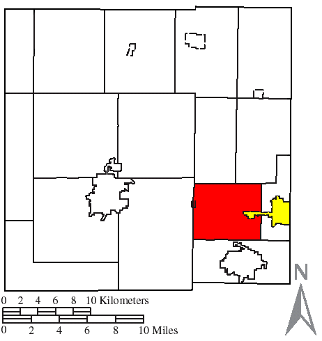 Made by the US Census and modified by myself